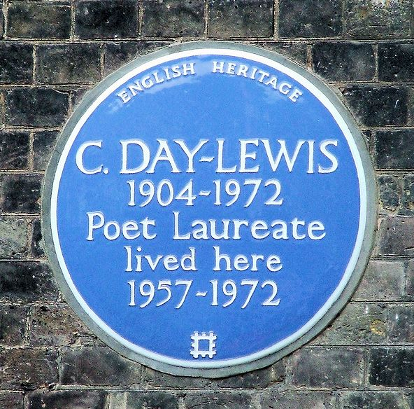 Blue plaque on the house of poet Cecil Day-Lewis in Greenwich, UK.